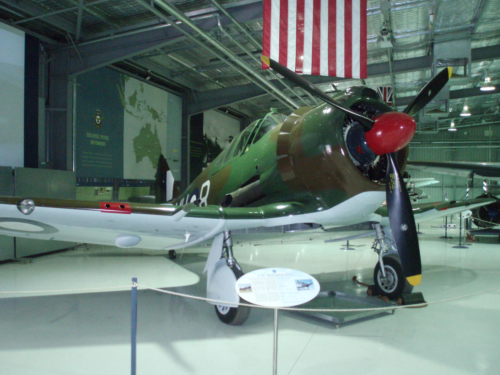 CA-13 Boomerang at Temora Aviation Museum.